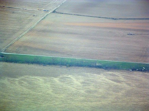 Swirling patterns in the vegitation/soil of a flood plain produced by the passing of an F3 tornado.